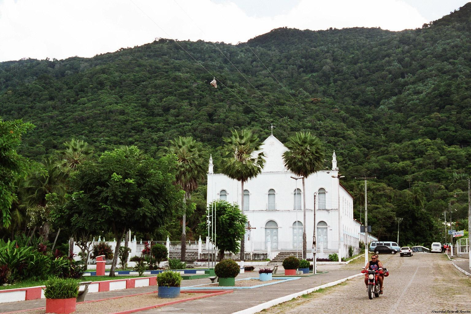 Pacatuca - Immaculate Conceptions Church